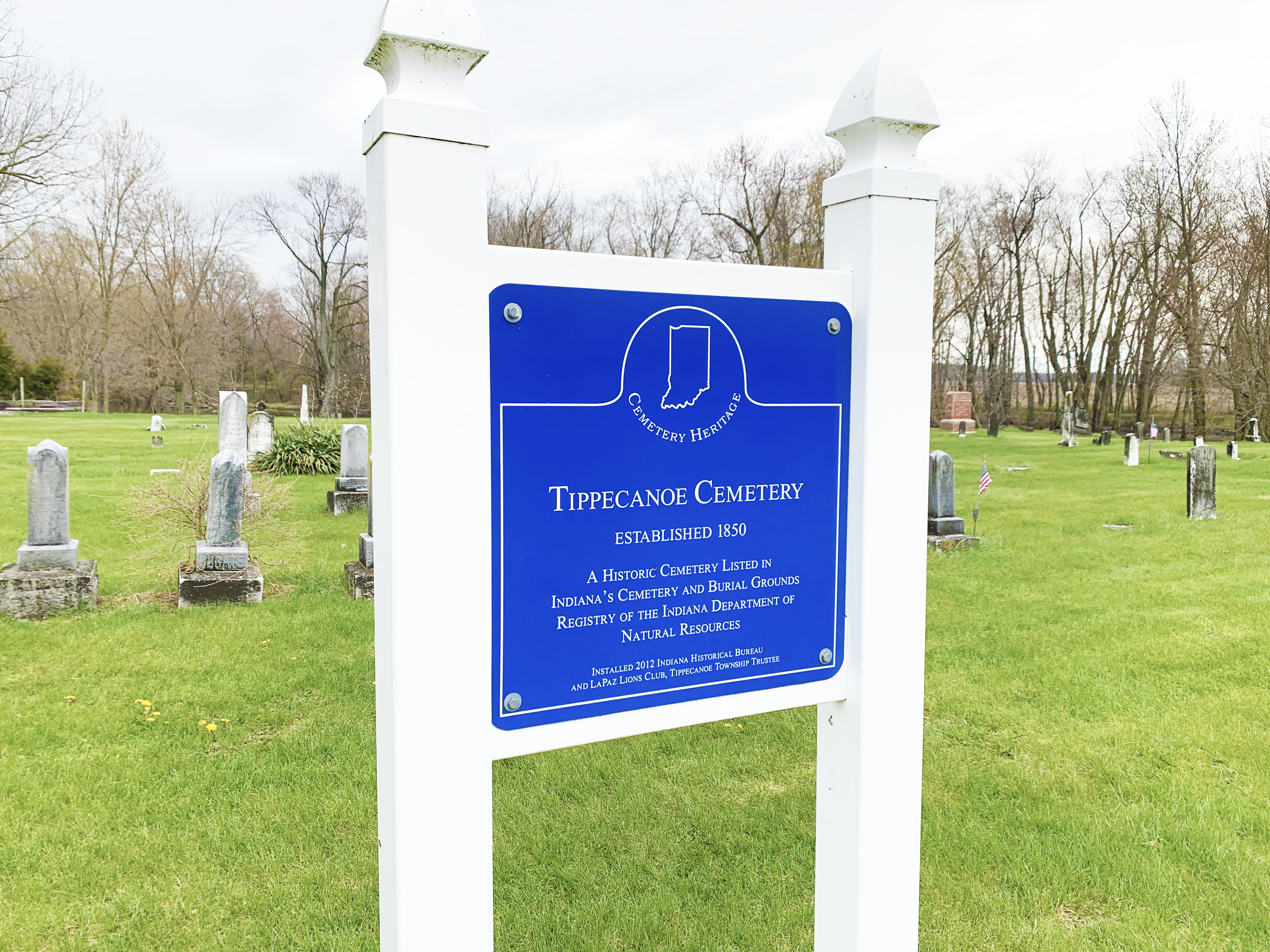 Photo of Tippecanoe, Indiana Cemetery Sign.